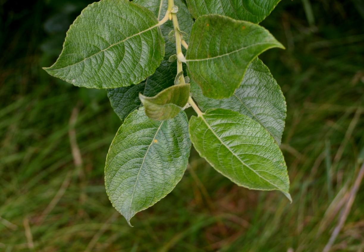 Description: Salix cinerea, leaf. This is Salix caprea rather. Kenraiz (talk) 09:04, 4 October 2009 (UTC) Source: Own photo, taken in Jutland, Jul 2004. Author: Sten Porse